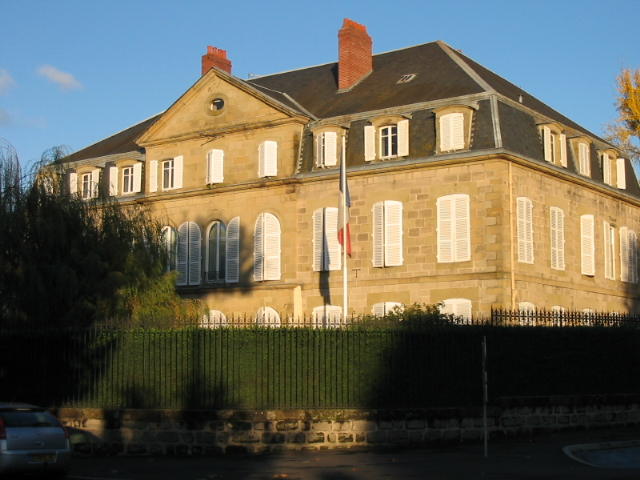 Sub-prefecture of Brive-la-Gaillarde (South-Western France)